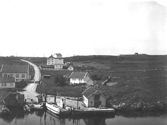 Salhusfærgen